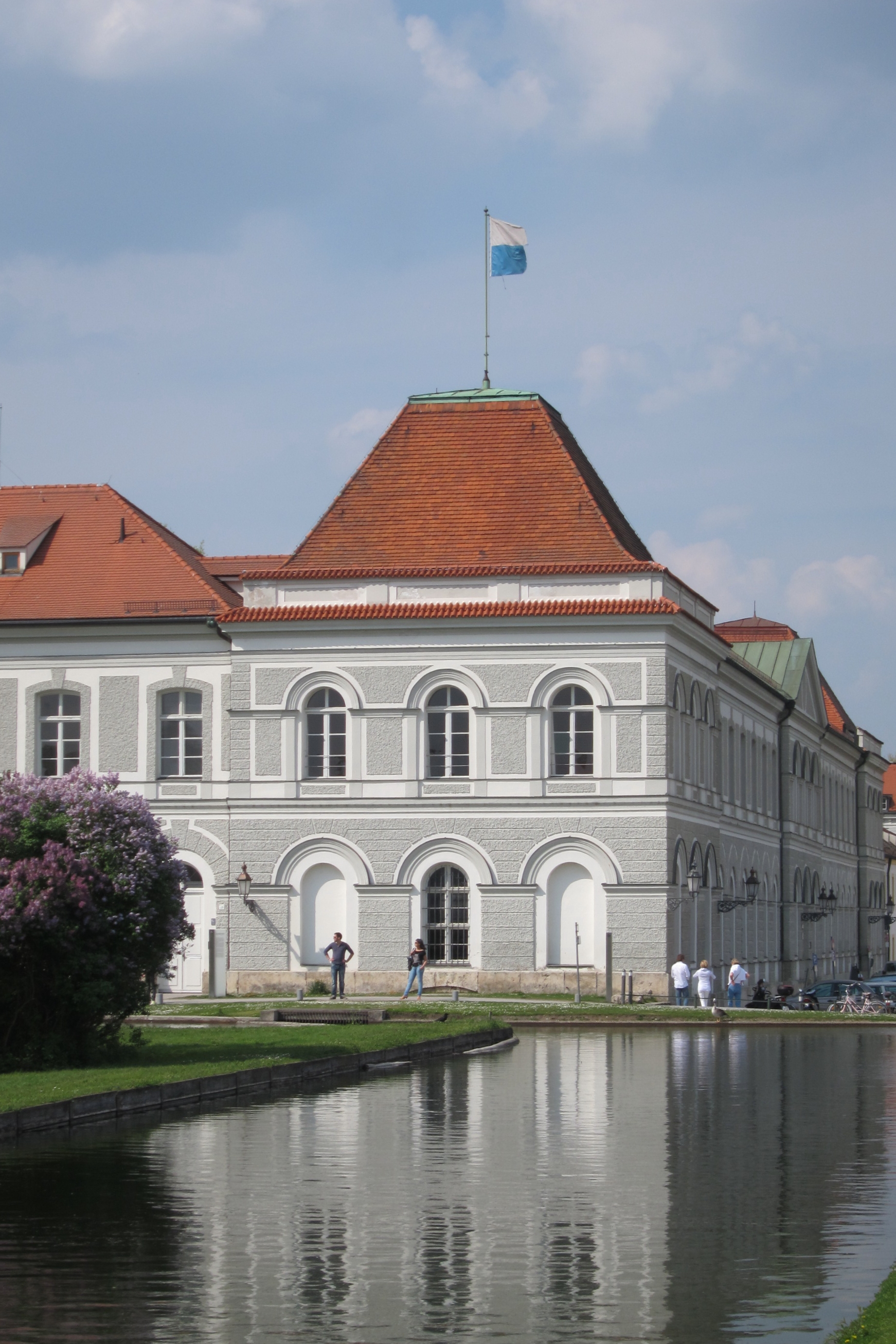 Pumping stations at the Nymphenburg Palace: Johannis Pump House: Johannistower at the north wing, housing the pump works on the ground floor.